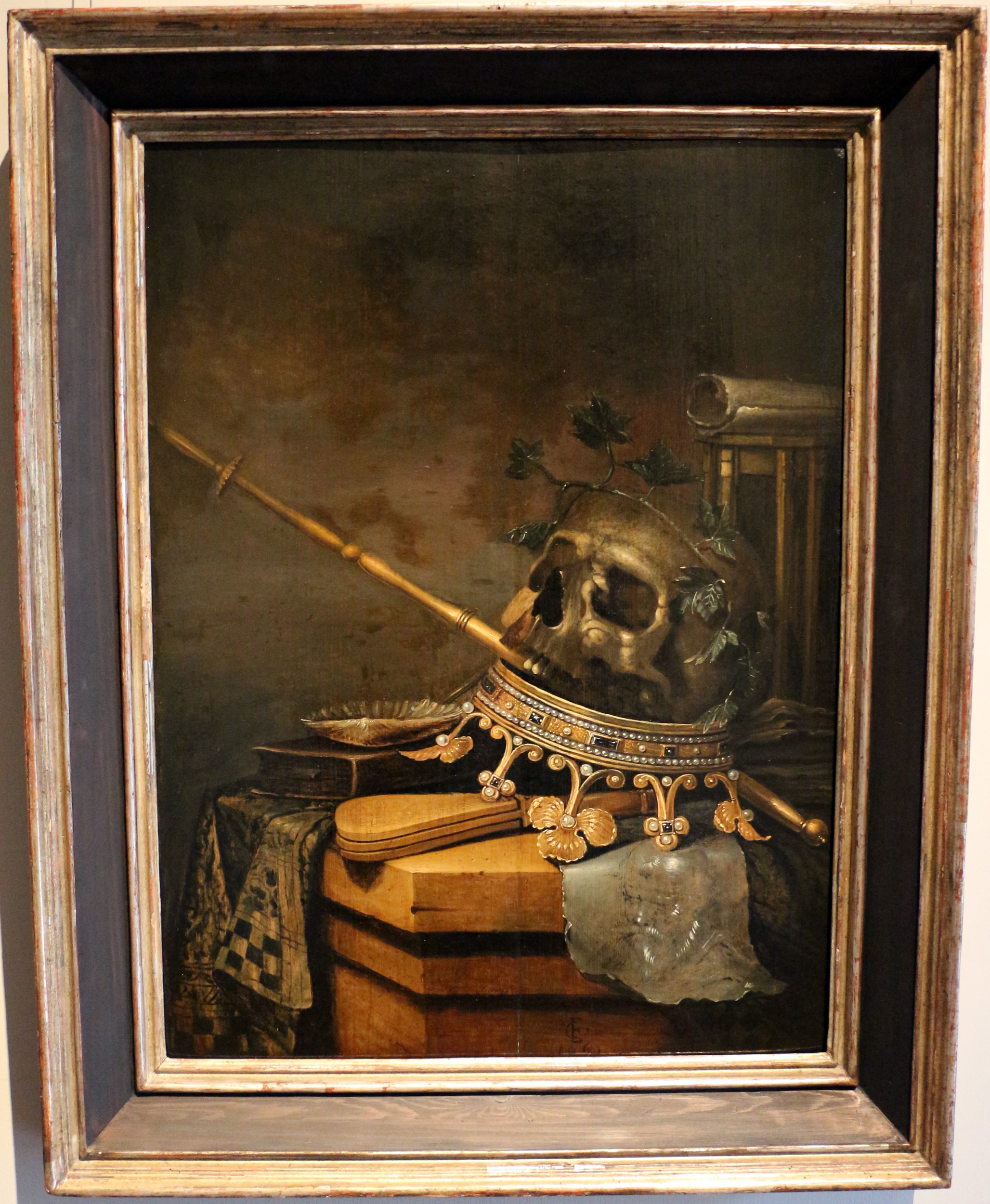 Paintings in the Sinebrychoff Art Museum